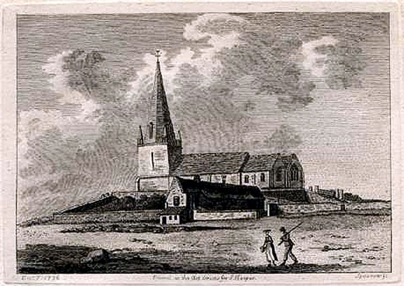 Oringinal etching by unknown artist ca. 1785 in the coll. of M. Christian Cardell Corbet PPCPA, CGAM, ISA, SAA, FRSA.